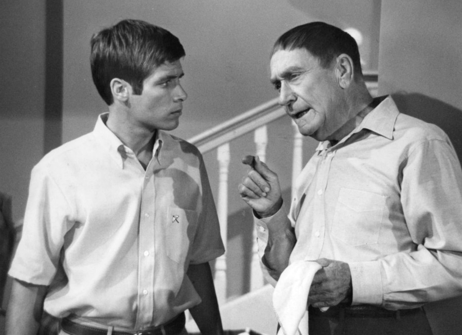 Photo of Don Grady (Robbie) and William Demarest (Uncle Charley) from the television program My Three Sons.